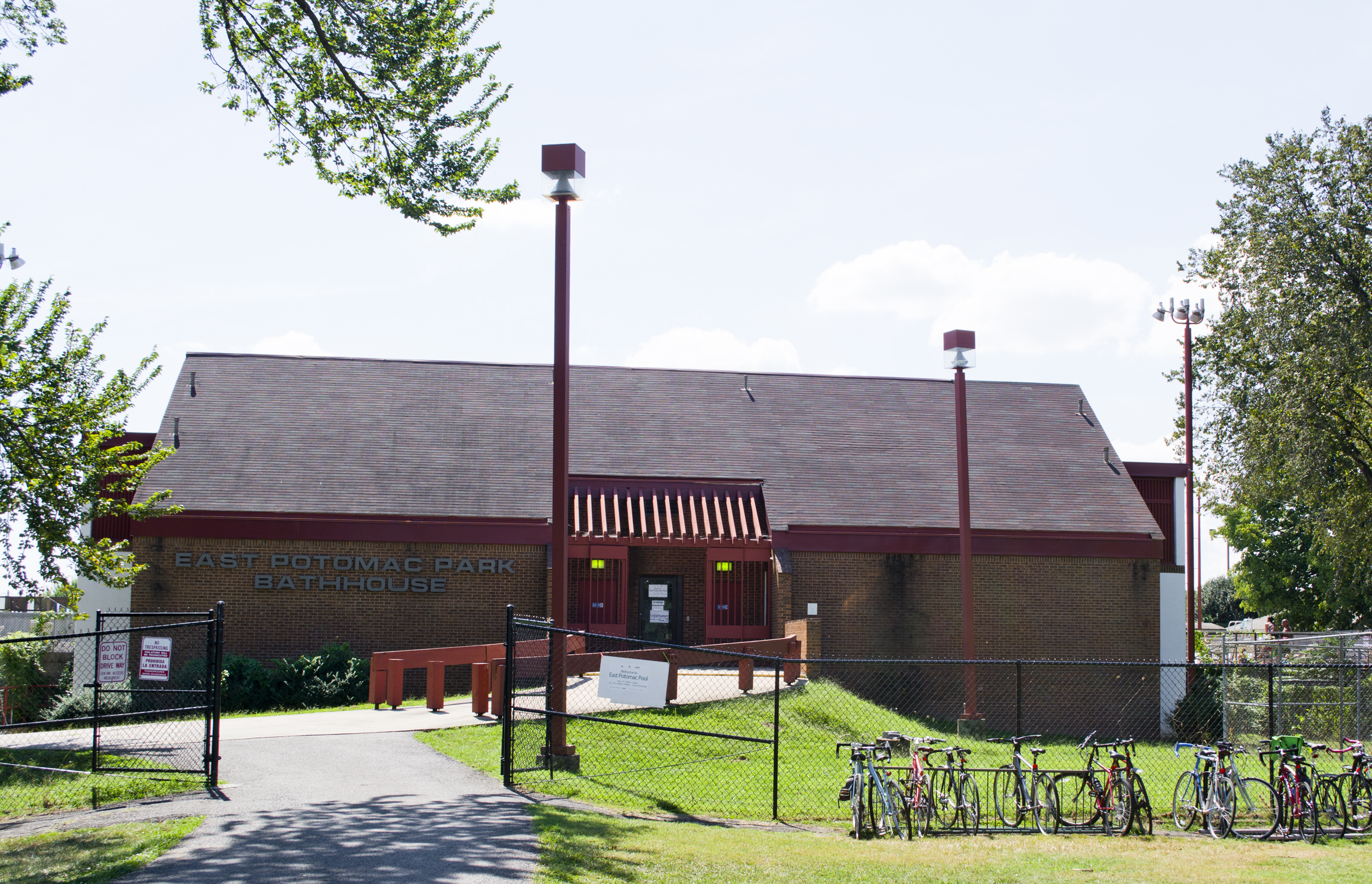 East Potomac Park Bathhouse, a public swimming pool in East Potomac Park in Washington, D.C., in the United States.